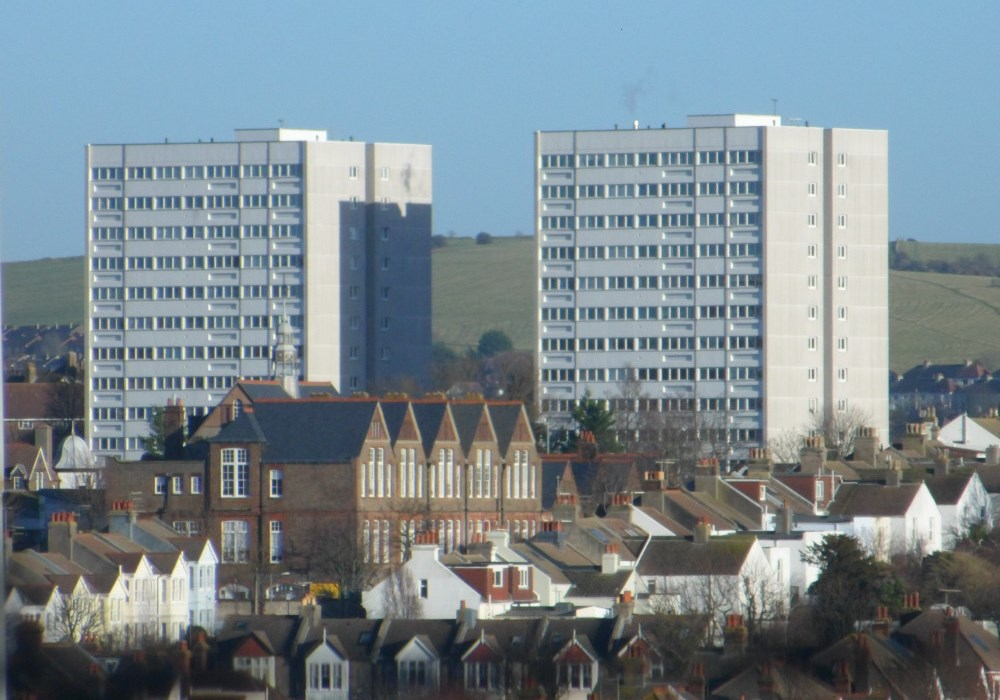 Nettleton Court and Dudeney Lodge, Upper Hollingdean Road, Hollingdean, City of Brighton and Hove, England. A landmark pair of council tower blocks in the east of Brighton, seemingly visible from all parts of the city. The gabled brick building in front of them is the Downs Junior School, originally a Board School (images: 1 2)